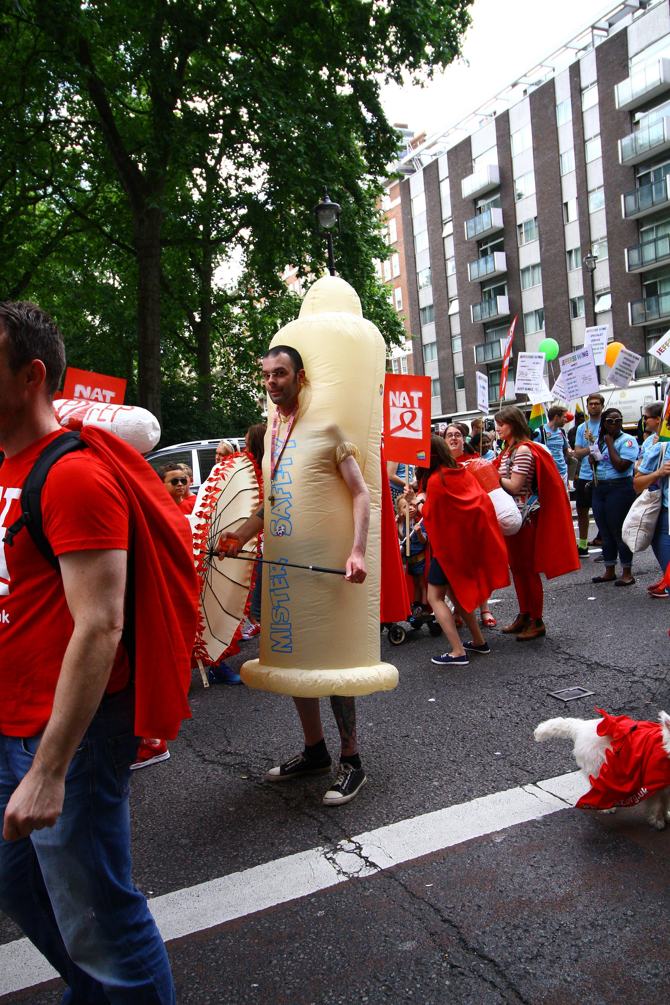 Pride in London 2015